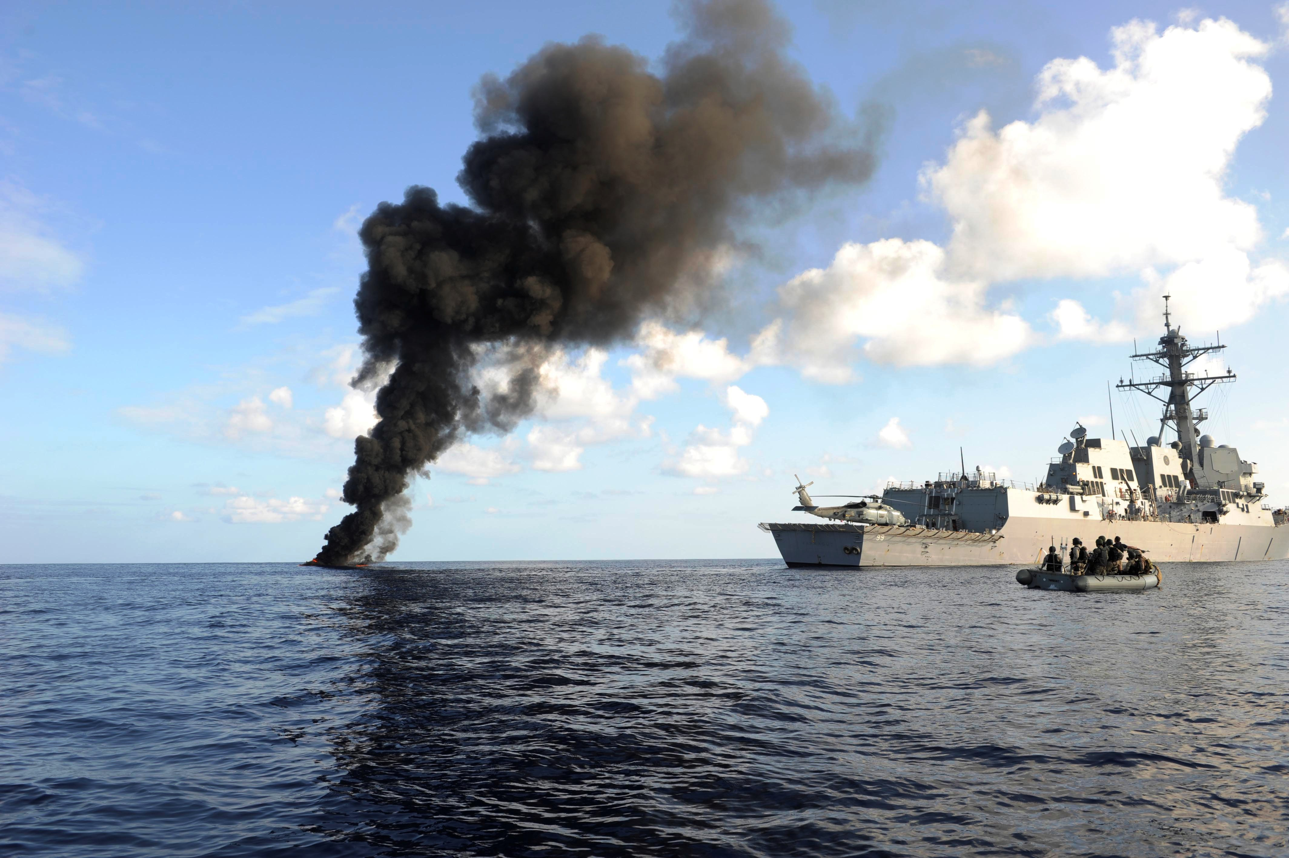 The Arleigh Burke-class guided missile destroyer USS Farragut (DDG 99) passes by the smoke from a suspected pirate skiff it had just destroyed. USS Farragut is part of Combined Task Force 151, a multinational task force established to conduct anti-piracy operations in the Gulf of Aden.